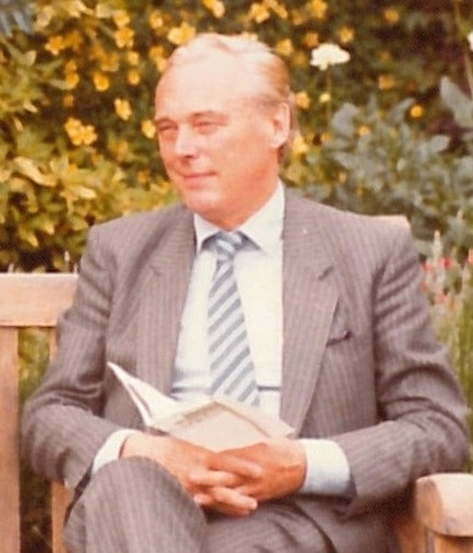 John Vassall (1924–1996), by this date known as John Phillips, photographed in 1984